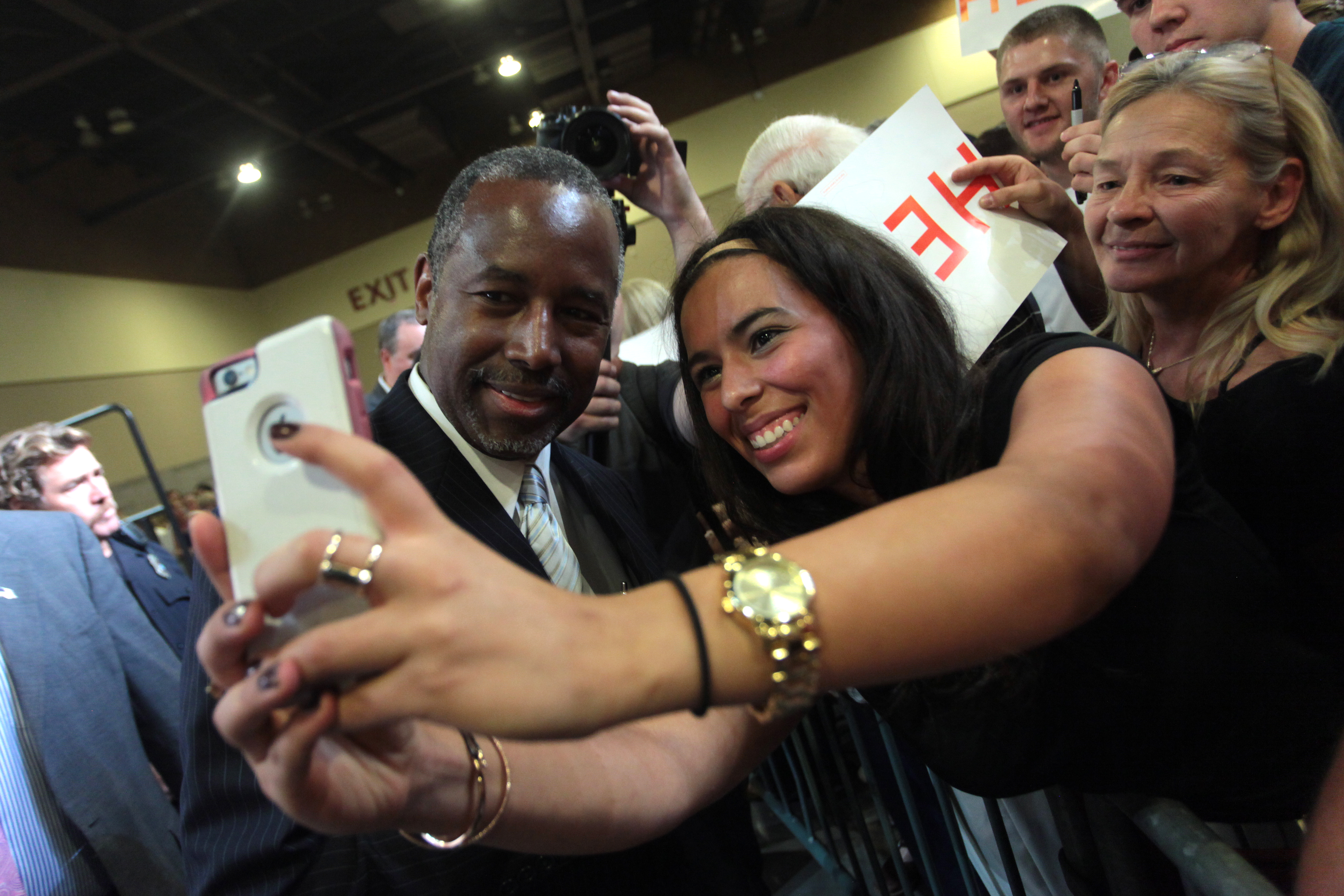 Ben Carson speaking in Phoenix, Arizona.